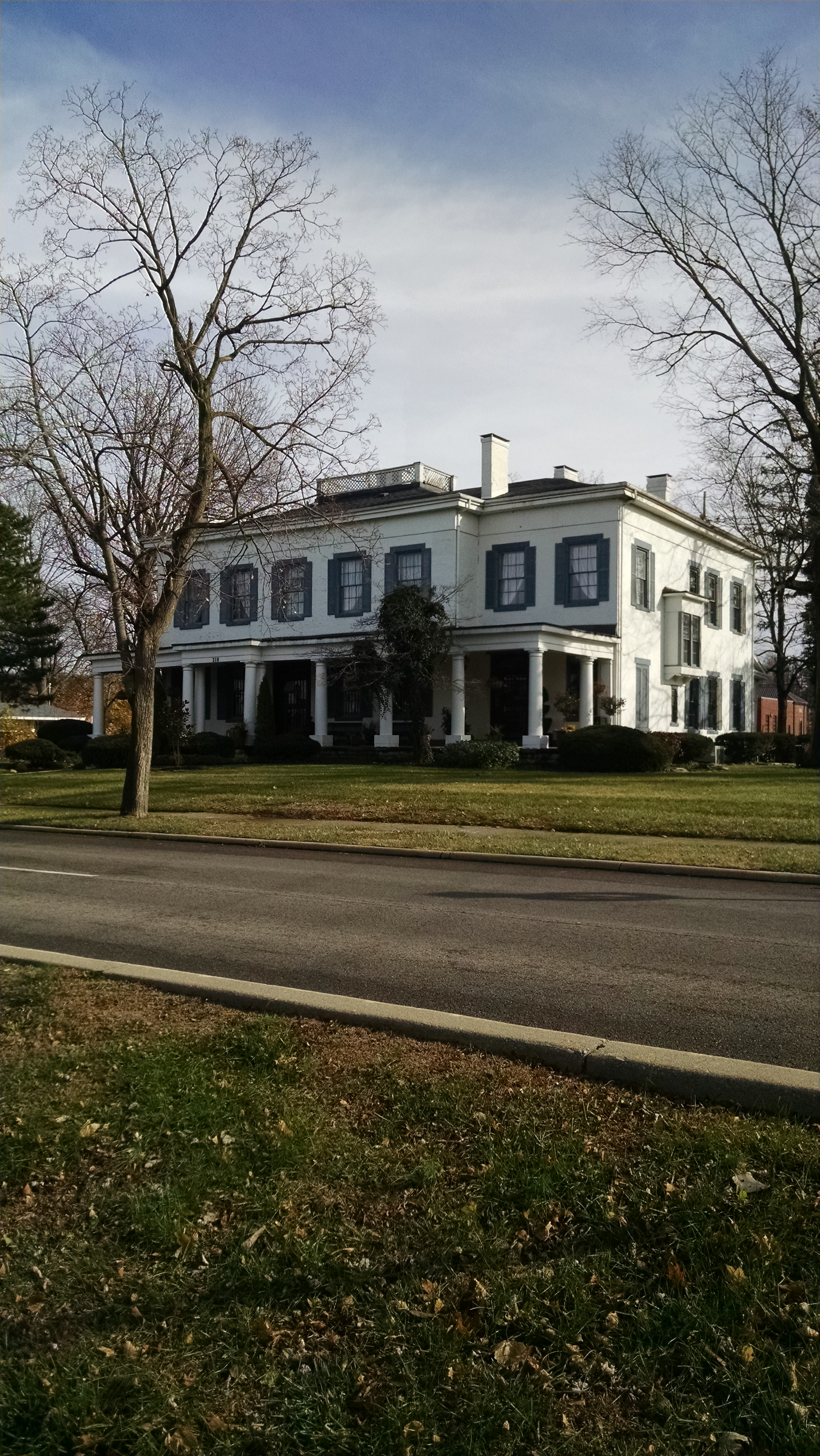 The Eden Thirkfield Home as it stands in downtown Franklin, Ohio.